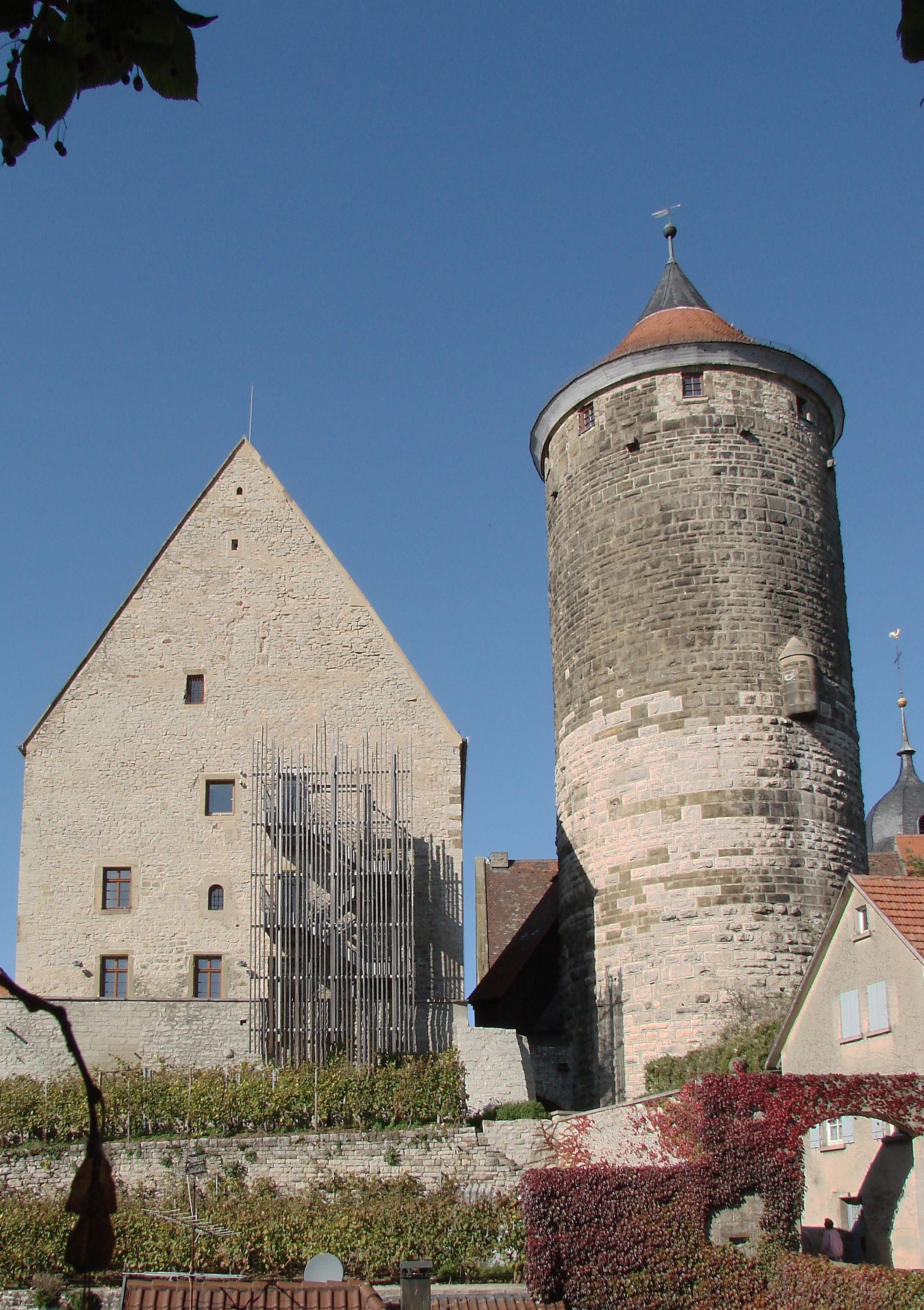 Besigheim, Germany, upper town gate with the Schochenturm